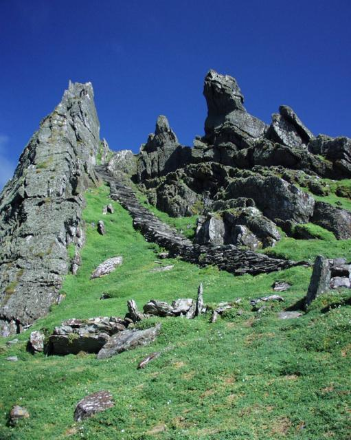 The "steps" seen looking northeast from Christ's Saddle on Skellig Michael in Ireland.